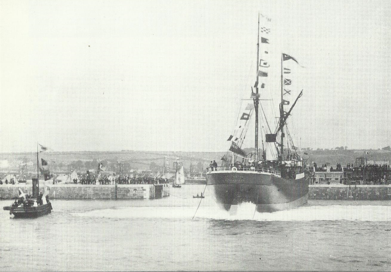 A Sunderland collier negotiates Basin entrance on opening day, 1889.